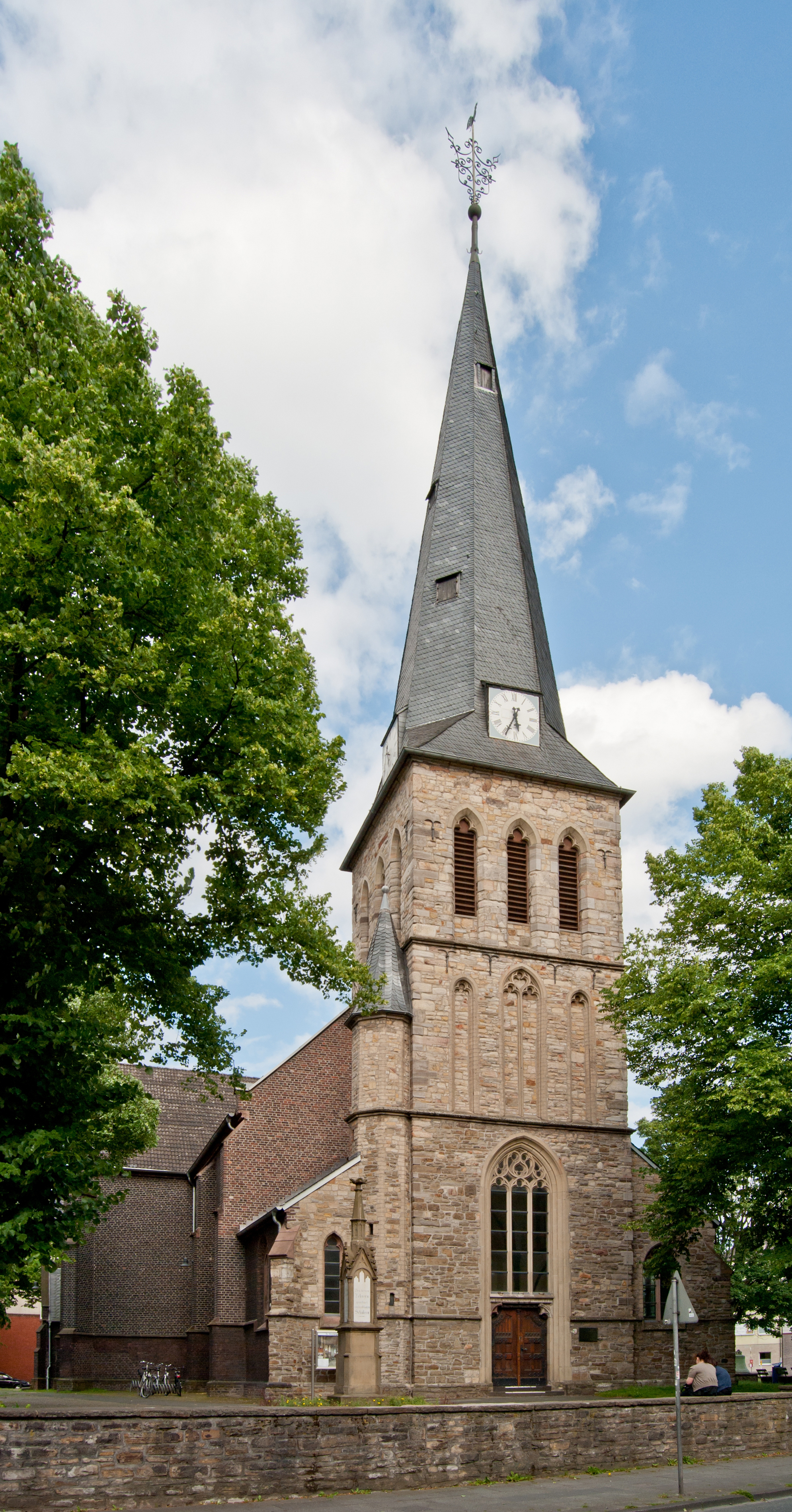 Duisburg (North Rhine-Westphalia, Germany) – borough Meiderich/Beeck, district Mittelmeiderich – Protestant Church – viewed from west This image shows a heritage building in Germany, located in the North Rhine-Westphalian city Duisburg (no. 40). This photograph was taken with a Nikon D3000